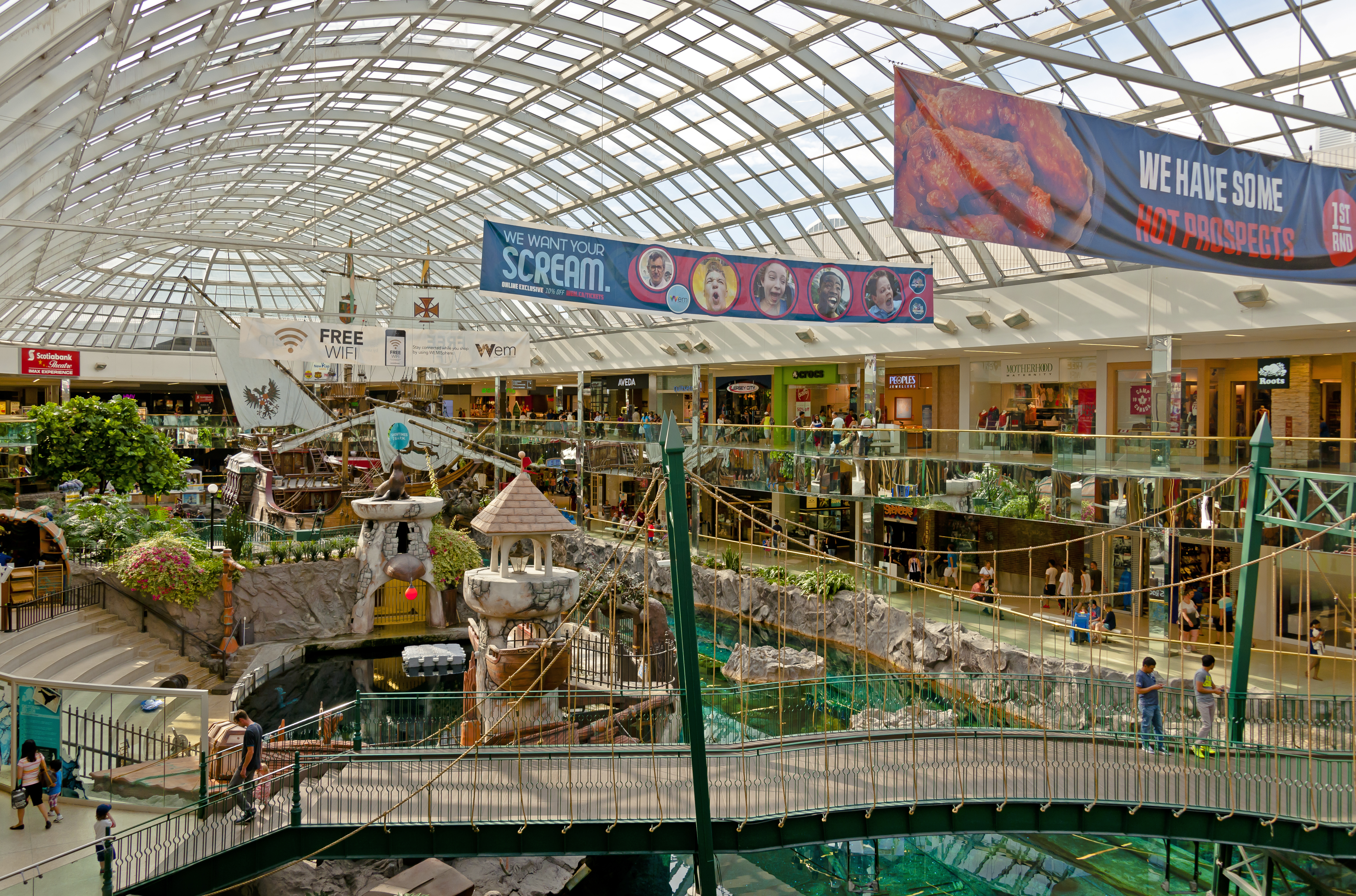 Sea Life Cavern wing at West Edmonton Mall